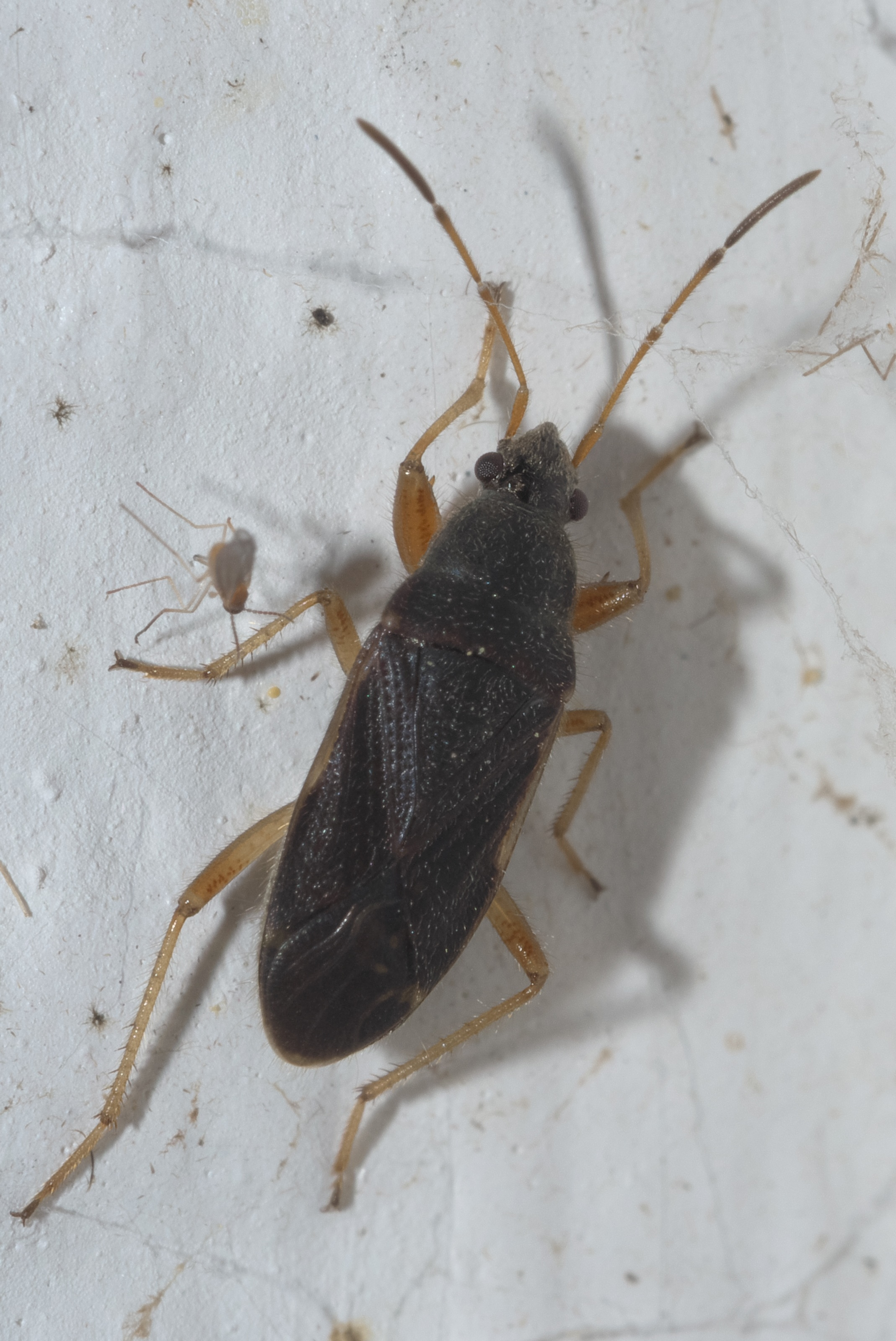 Perigenes similis, Family: Dirt-colored Seed Bugs, Size: 6 mm, ID Confidence: 98